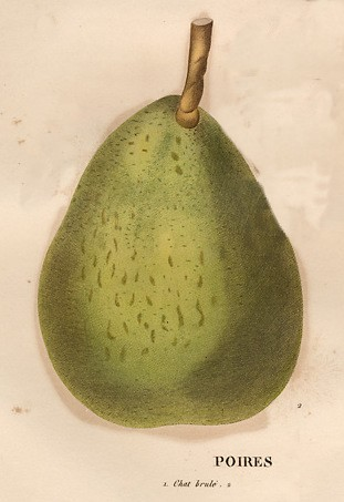 Chat-Brûlé, Planche de botanique de Jaume Saint-Hilaire.